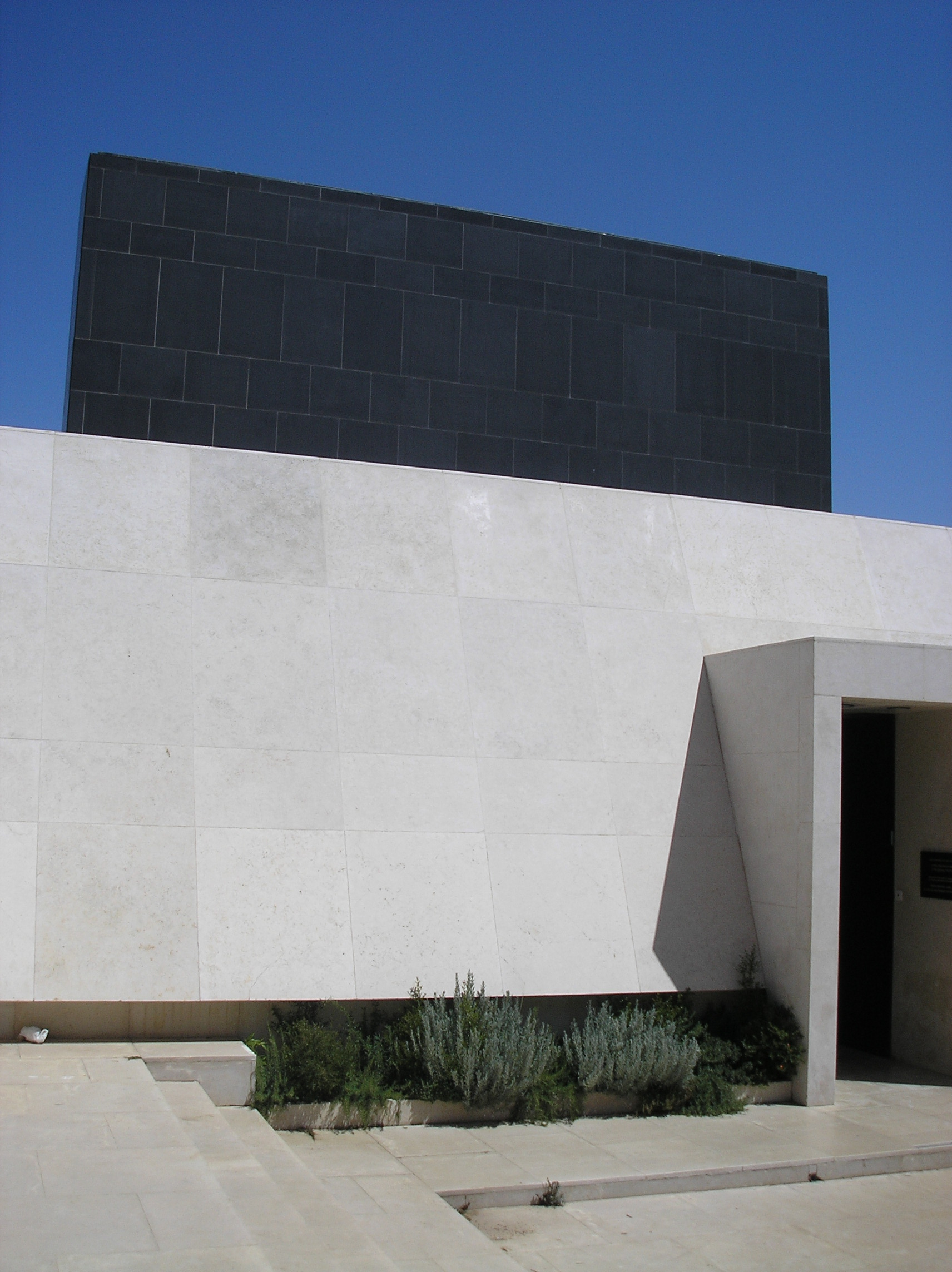 Shrine of the Book, Israel Museum